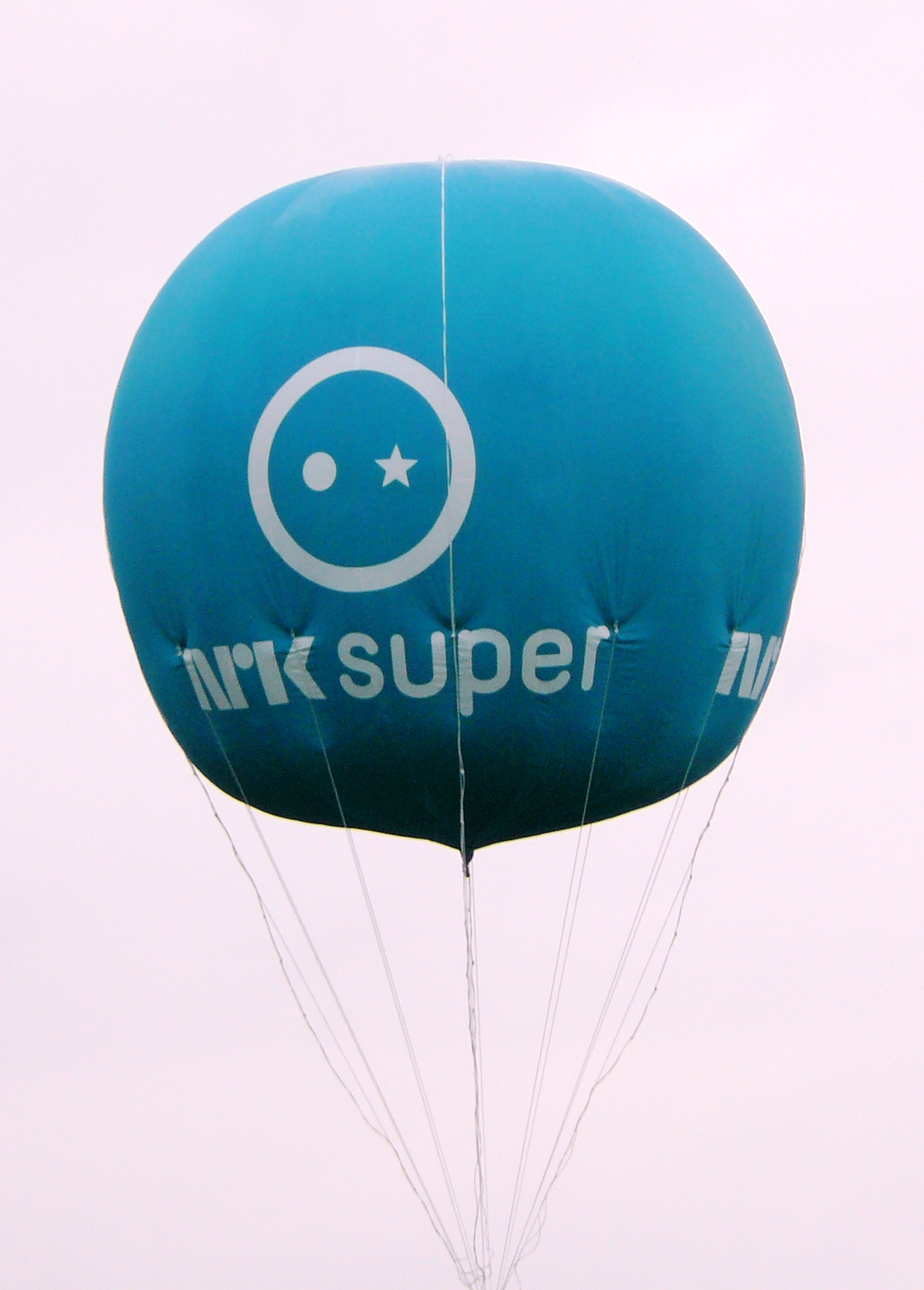 Promotionballoon from NRK Super